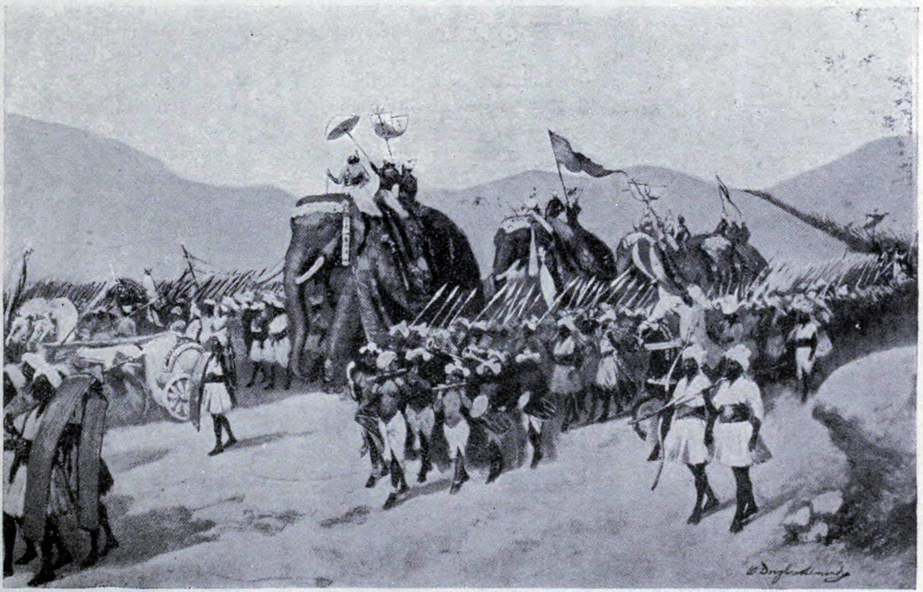 Vikramaditya Gupta goes forth to war, AD 395. One of the great figures of ancient India whose fame has come down to modern times in legend and story is the Gupta emperor Chandragupta II, surnamed Vikramaditya, nowadays corrupted into Bikramjit, and still more popularly into Raja Bikram. His most famous exploit was a march across India ending in the conquest of the Western Satraps of Saurashtra now known as Kachh and Gujarat. From page 143 of Hutchinson's story of the nations, containing the Egyptians, the Chinese, India, the Babylonian nation, the Hittites, the Assyrians, the Phoenicians and the Carthaginians, the Phrygians, the Lydians, and other nations of Asia Minor.